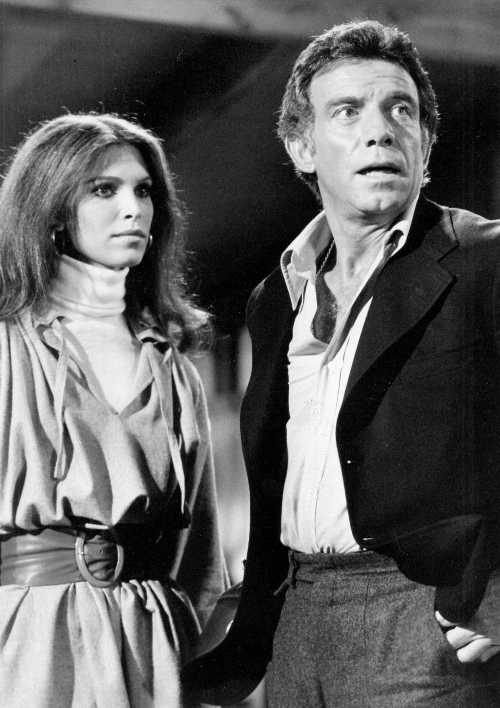 Photo of Ann Turkel and Anthony Franciosa from the made for television film which became the first episode of the television program Matt Helm.